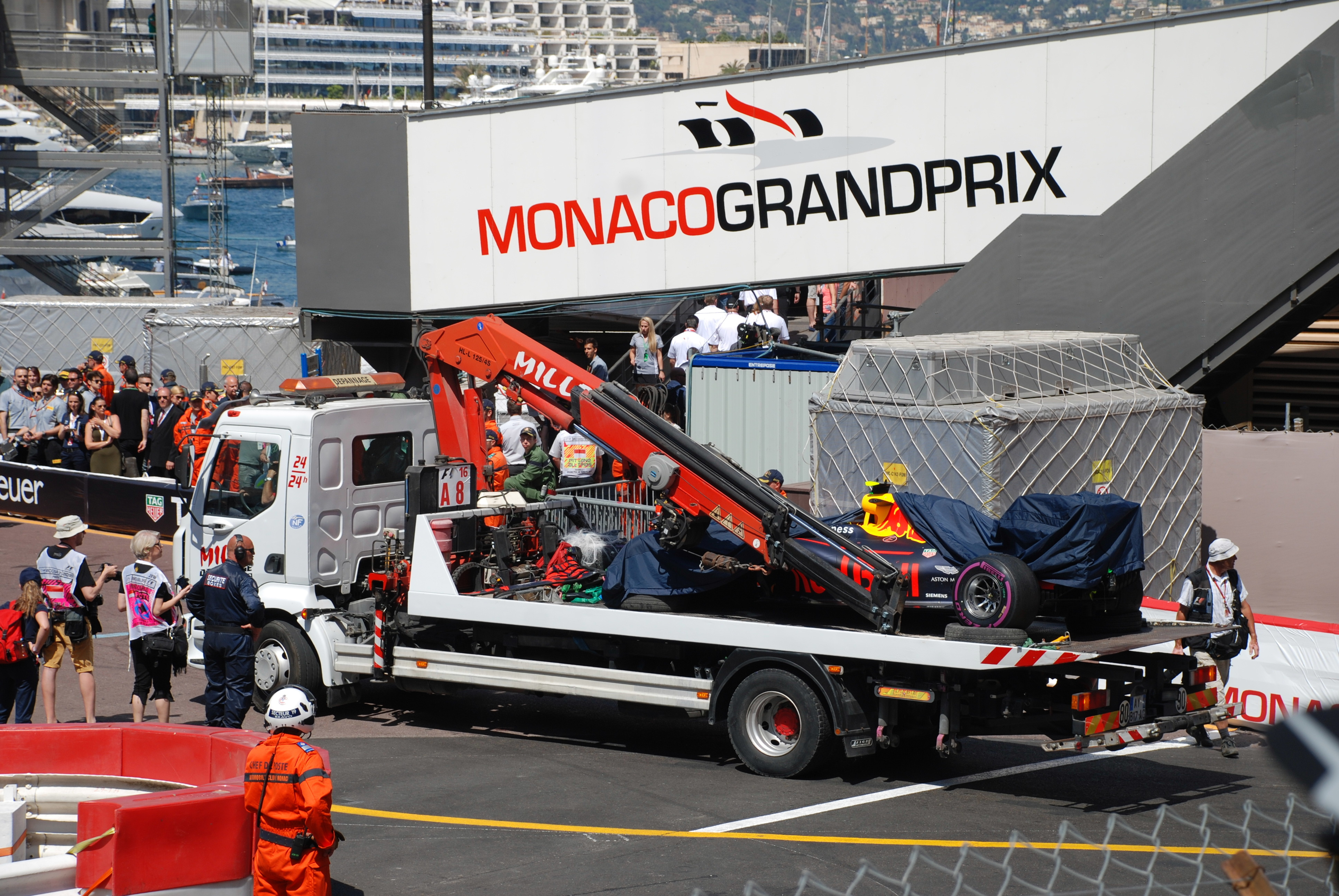 Max Verstappen's wreckage at the 2016 Monaco Grand Prix